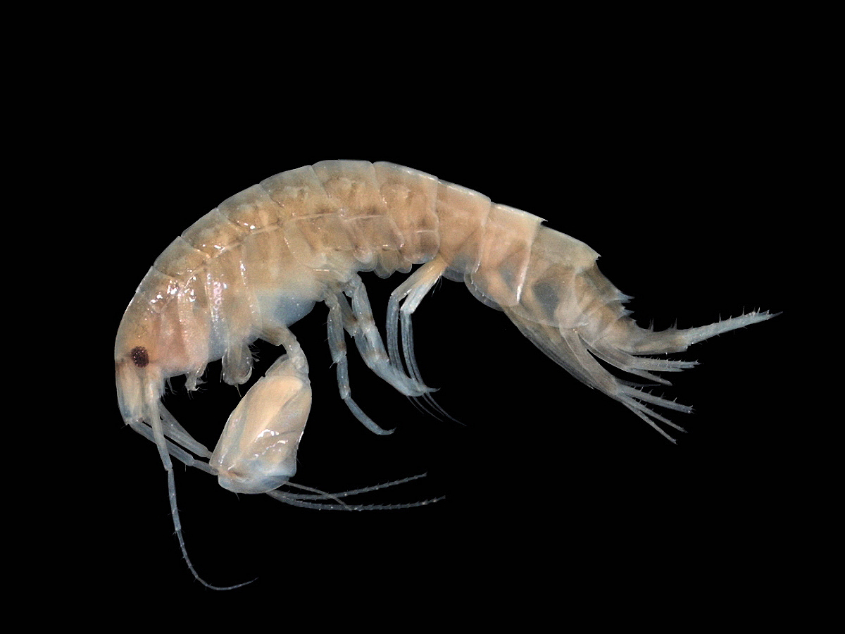 A benthic amphipod taken with Axiocam (Zeiss) camera mounted on a Zeiss Stemi C-2000 binocular microscope. The amphipod was sampled on the Belgian Continental Shelf in 1997.